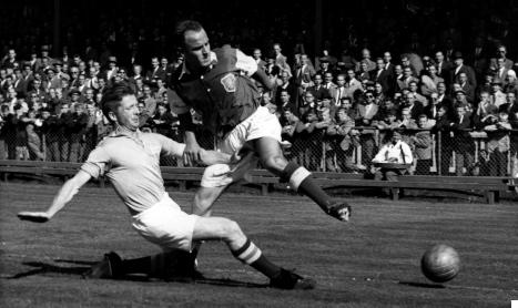 Frank "Sanny" Jacobsson Gais i kamp med MFF-backen Sune Sandbring i en allsvensk match på Malmö Stadion den 3 maj 1953.